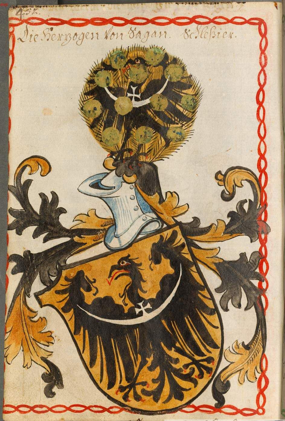 Coat of arms of the Duke of Sagan